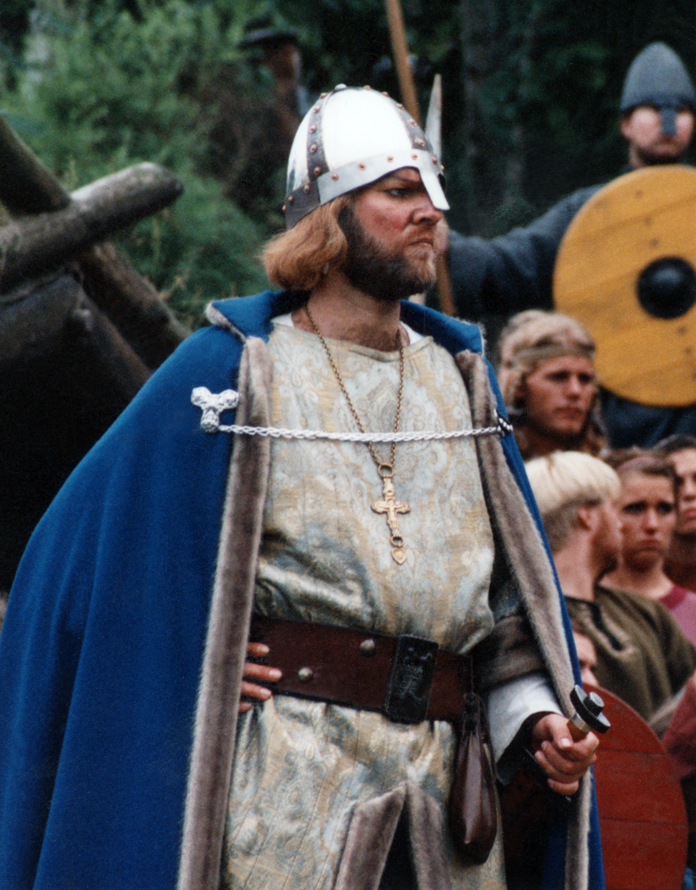 Norwegian actor Ingar Helge Gimle as Olaf II of Norway in the The Saint Olav Drama at Stiklestad 1994